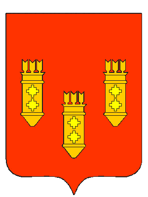 Official coat of arms of Alatyr (Russia).